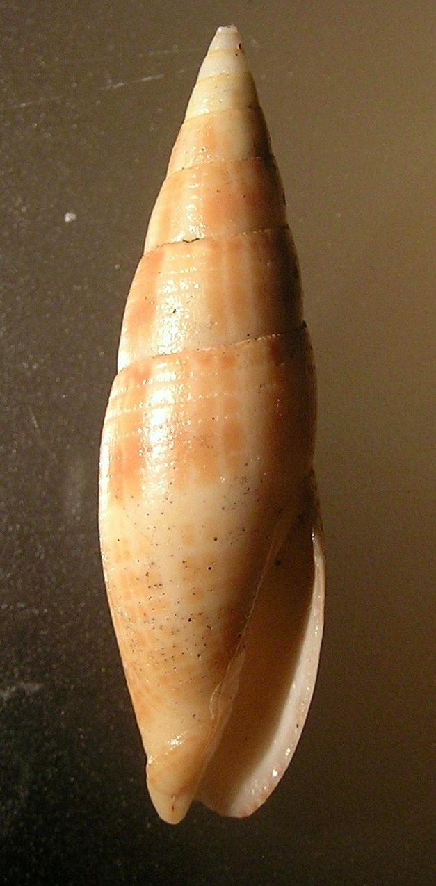 Mitra inquinata Reeve, 1844, family Mitridae; East China Sea